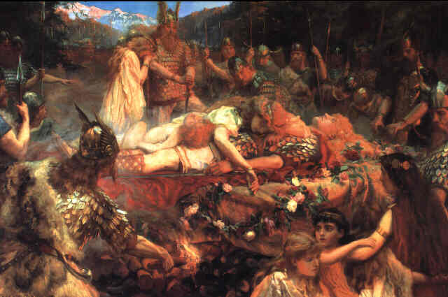 Death of a viking warrior